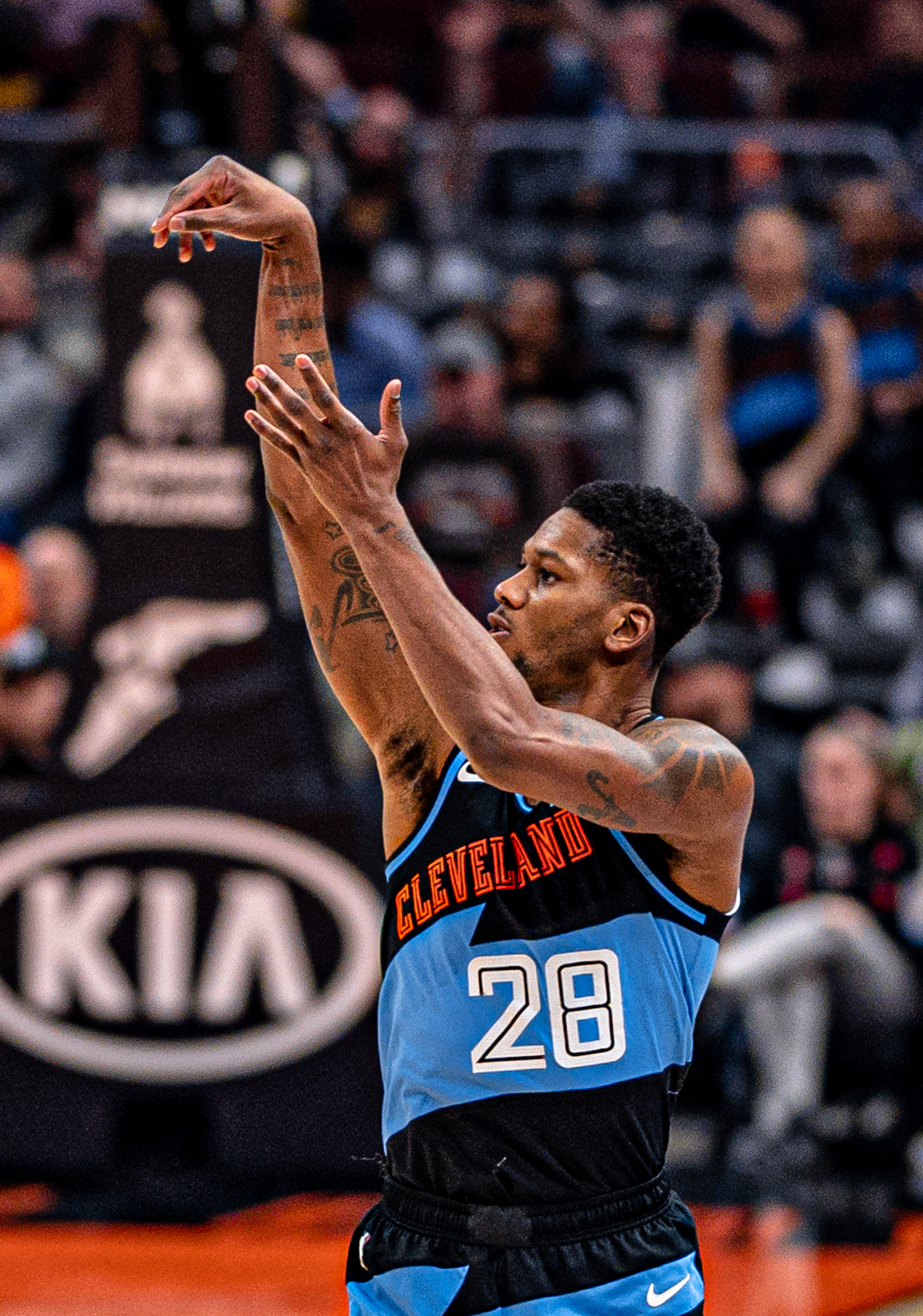 Alfonzo McKinnie takes a jump shot for the Cleveland Cavaliers during a 2019 game at Rocket Mortgage FieldHouse in Cleveland.